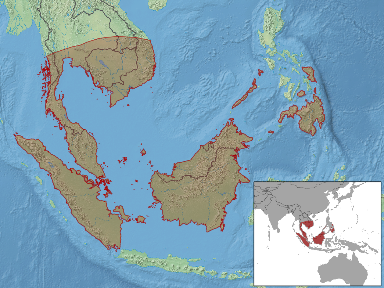 geographic distribution of Calliophis intestinalis